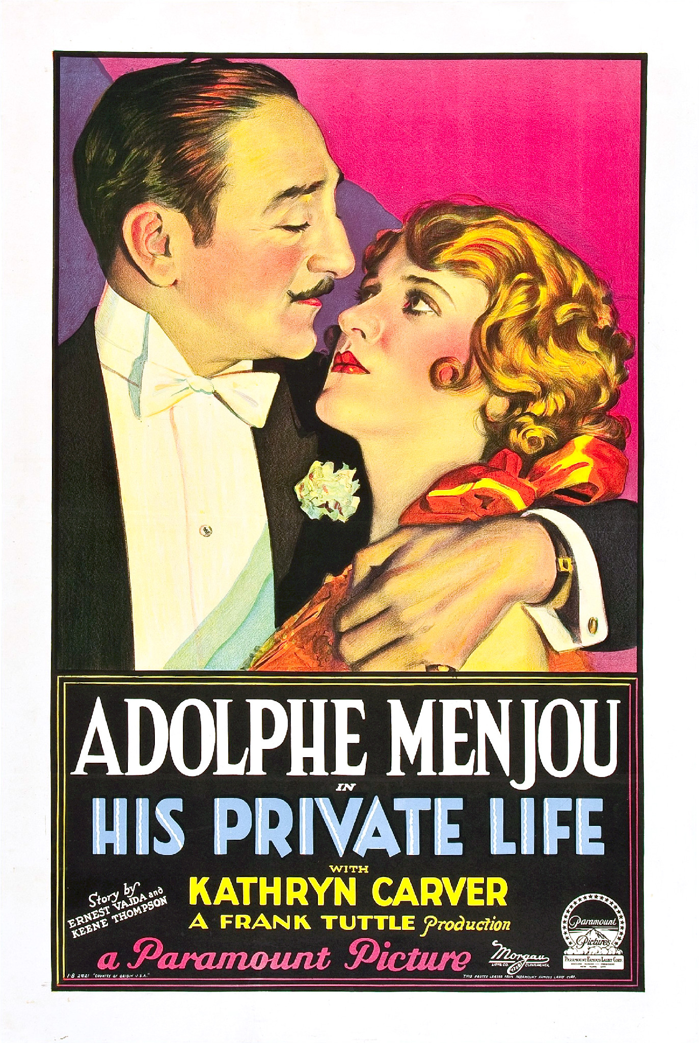 Poster for the 1928 film His Private Life There are no copyright marks on the item. At bottom left (in border) is 1-B 2821 Country og Origin USA. At bottom right (under Morgan Litho Co. logo) is This poster leased from Paramount Famous Lasky Corp.